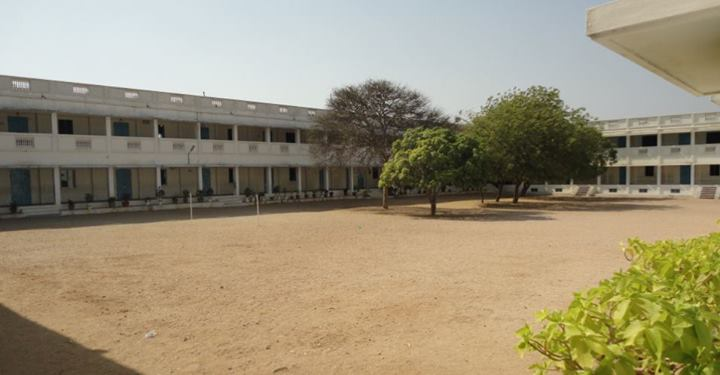 Back view of the school